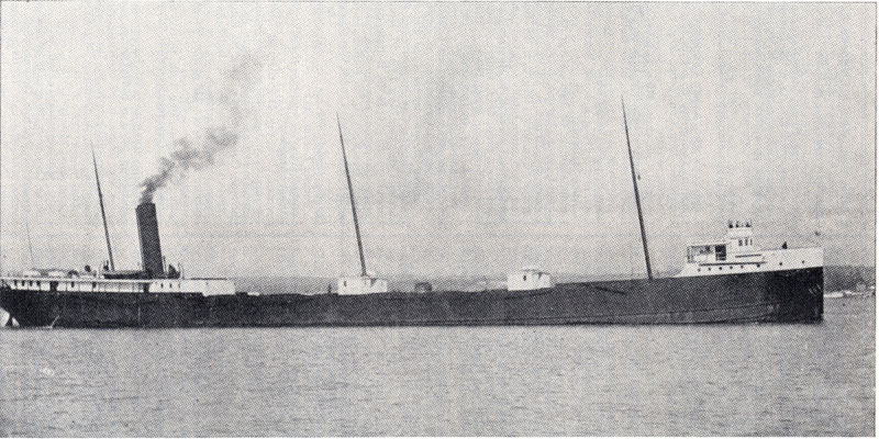 The Eddy-Shaw Transportation Company steel-hulled steamer Penobscot. From the book History of the Great Lakes. Volume I, Chicago: J. H. Beers & Co., 1899, J. B. Mansfield, ed.